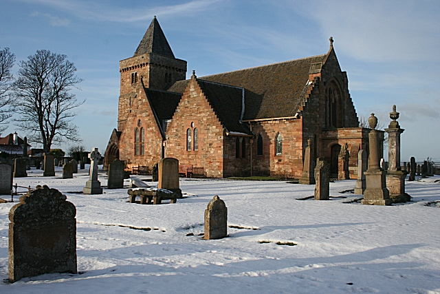 Aberlady Parish Kirk. A wintry view of the red sandstone kirk. For a summer view and architectural detail see 192799.